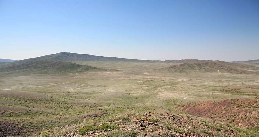 Crater Shunak, a meteorite impact crater located in the south-eastern part of Qaraghandy Province in Kazakhstan. Edmon2004, own work